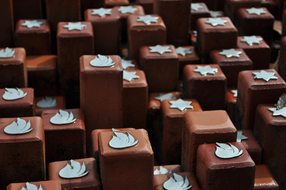 In this memorial the stars symbolise the Jews, the flames the Roma and Sinti and the empty blocks are for the anonymous "verzetsstrijders" (freedom activists) - if I remember correctly. From kamp Westerbork (Drenthe, NL) approximately 107000 people were deported during the 2nd world war. Only 5000 survived.